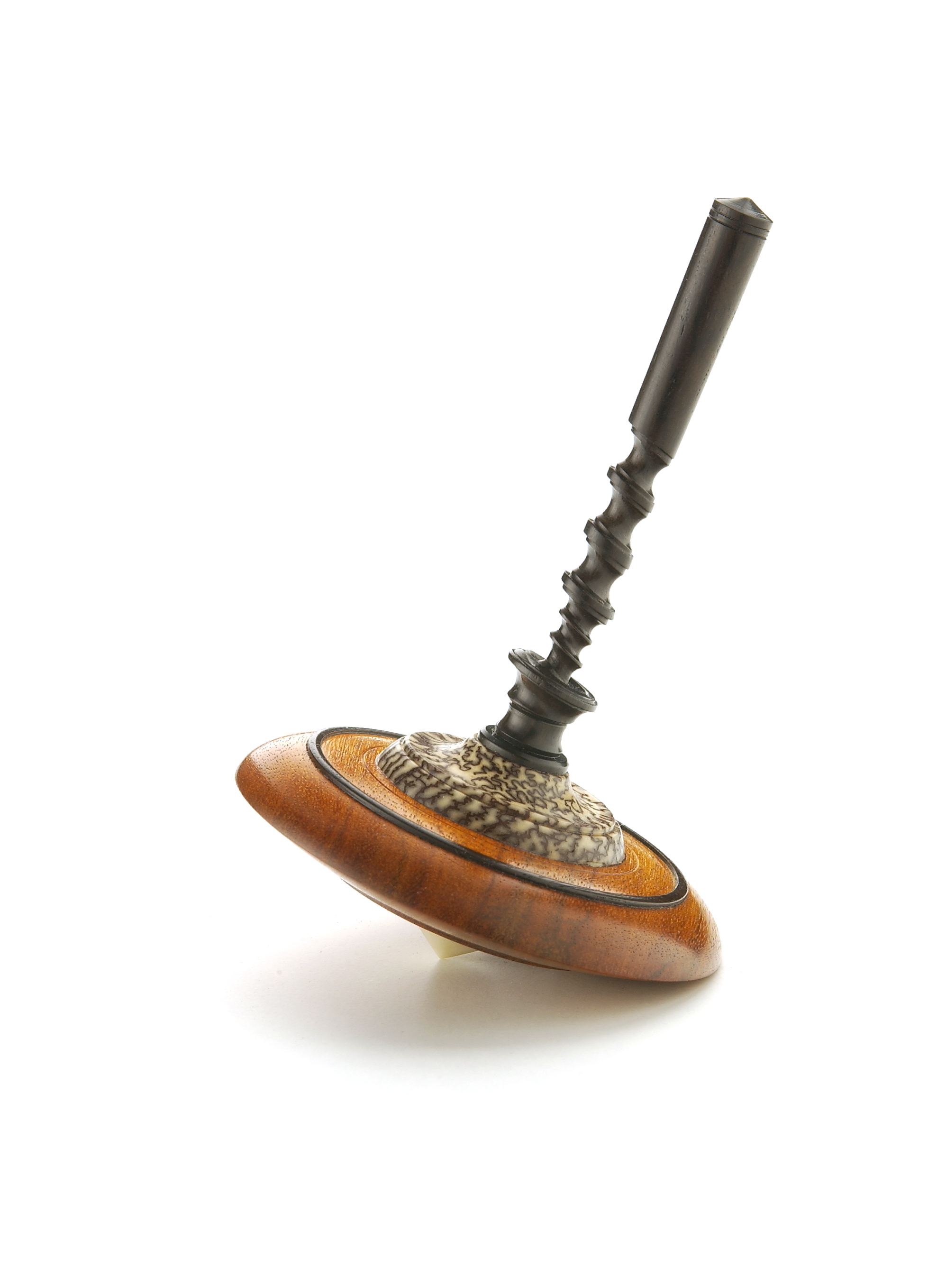 Hand turned spinning top by Armin Kolb with ornamental turned handle